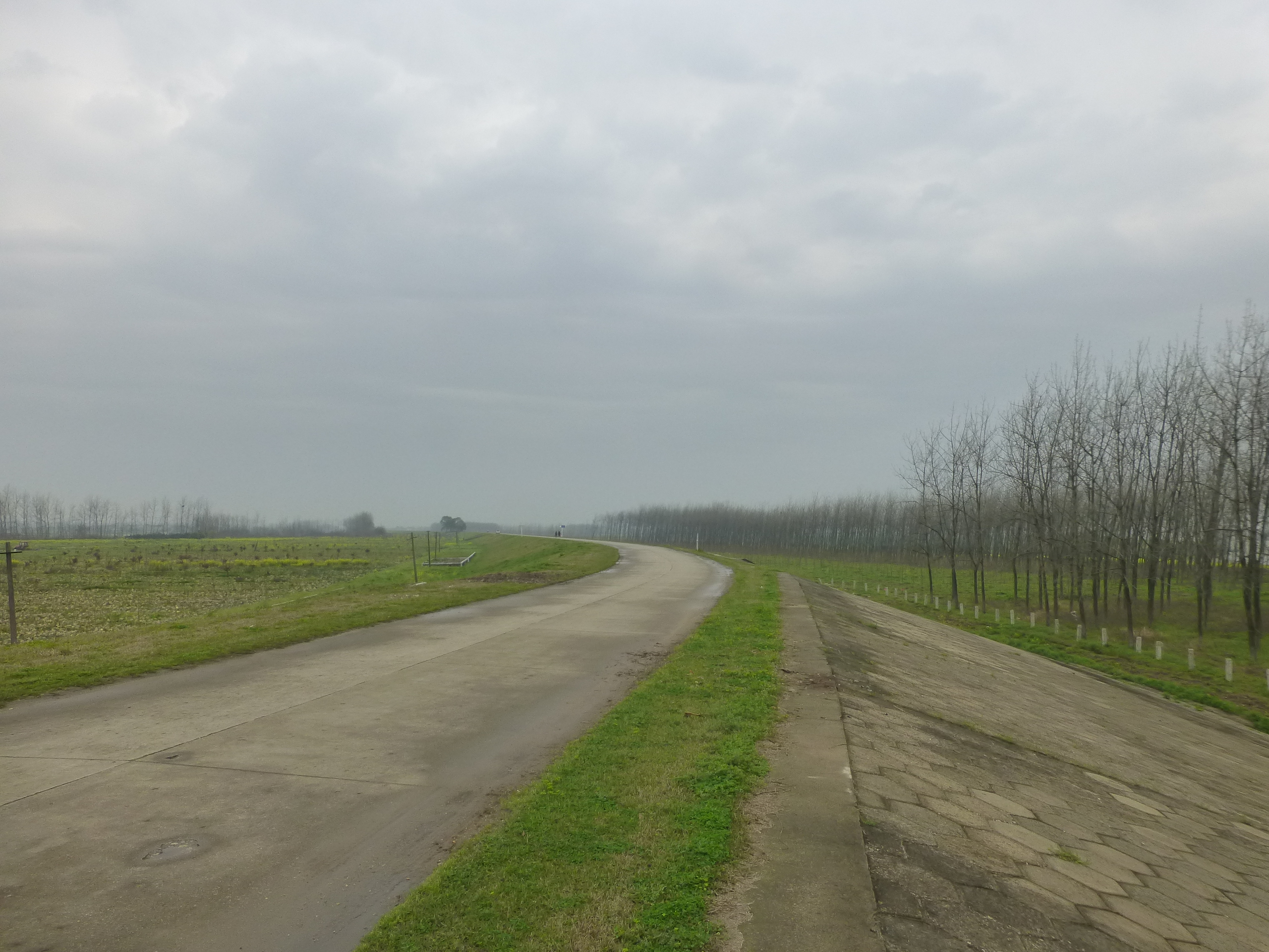 A view from the embankment on the right bank of the Yangtze near Panjiawan Town, Jiayu County, Hubei